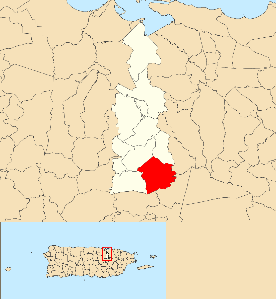 Hato Nuevo, Guaynabo, Puerto Rico locator map